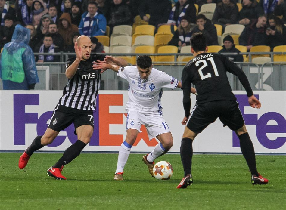 Dynamo Kyiv vs Partizan Belgrade in December 2017